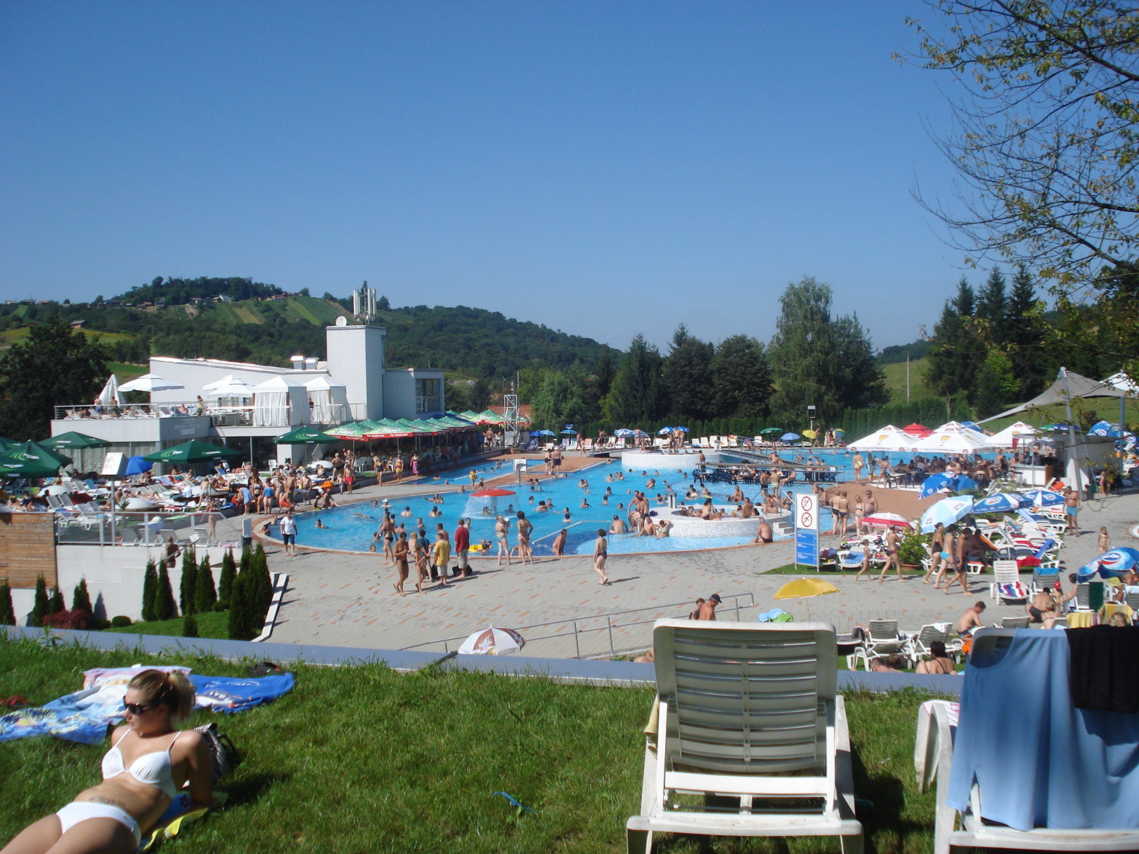 Vučkovec (Croatia) - spa complex (northern part)